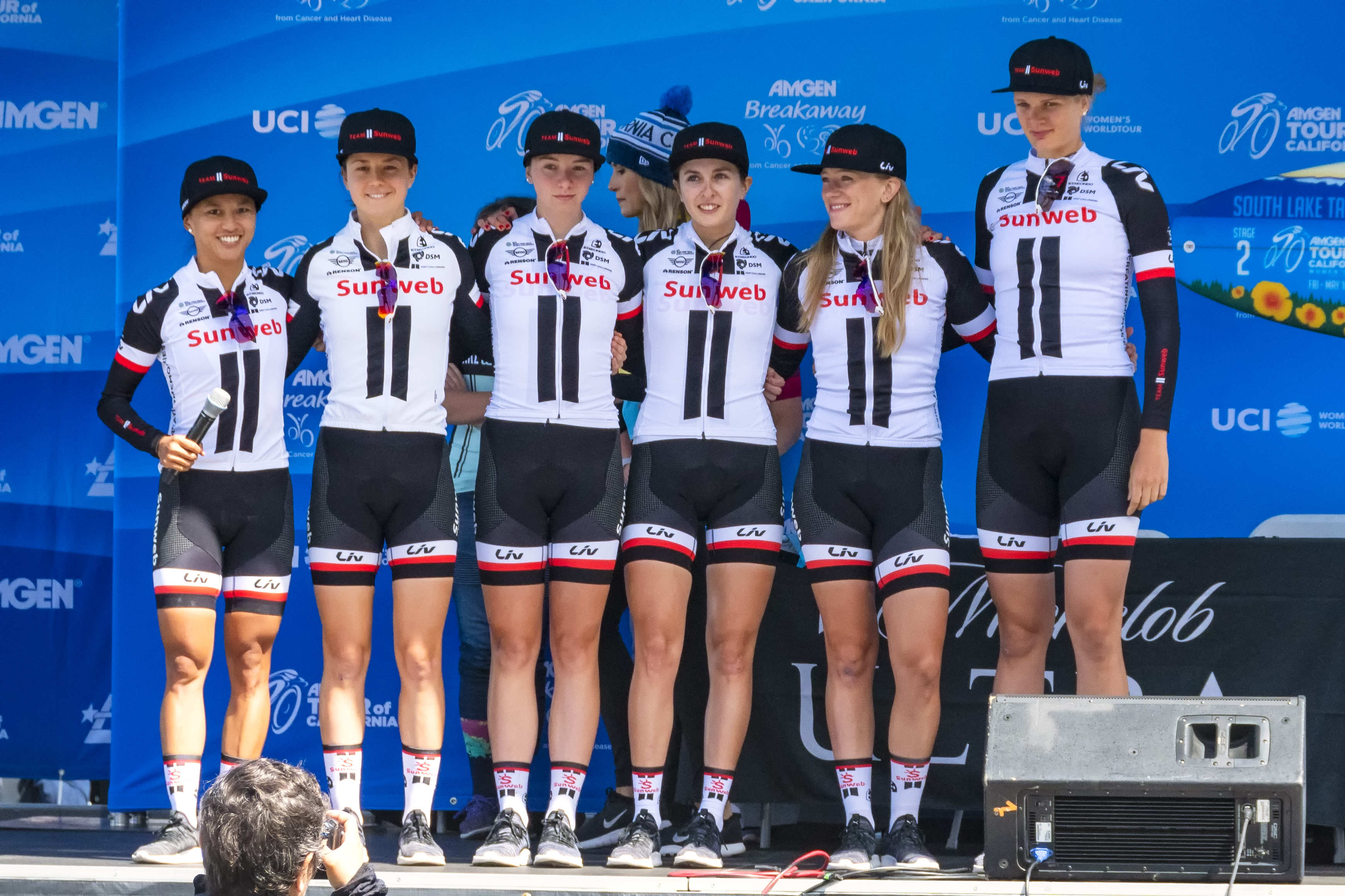 Amgen Women's Tour of California 2018